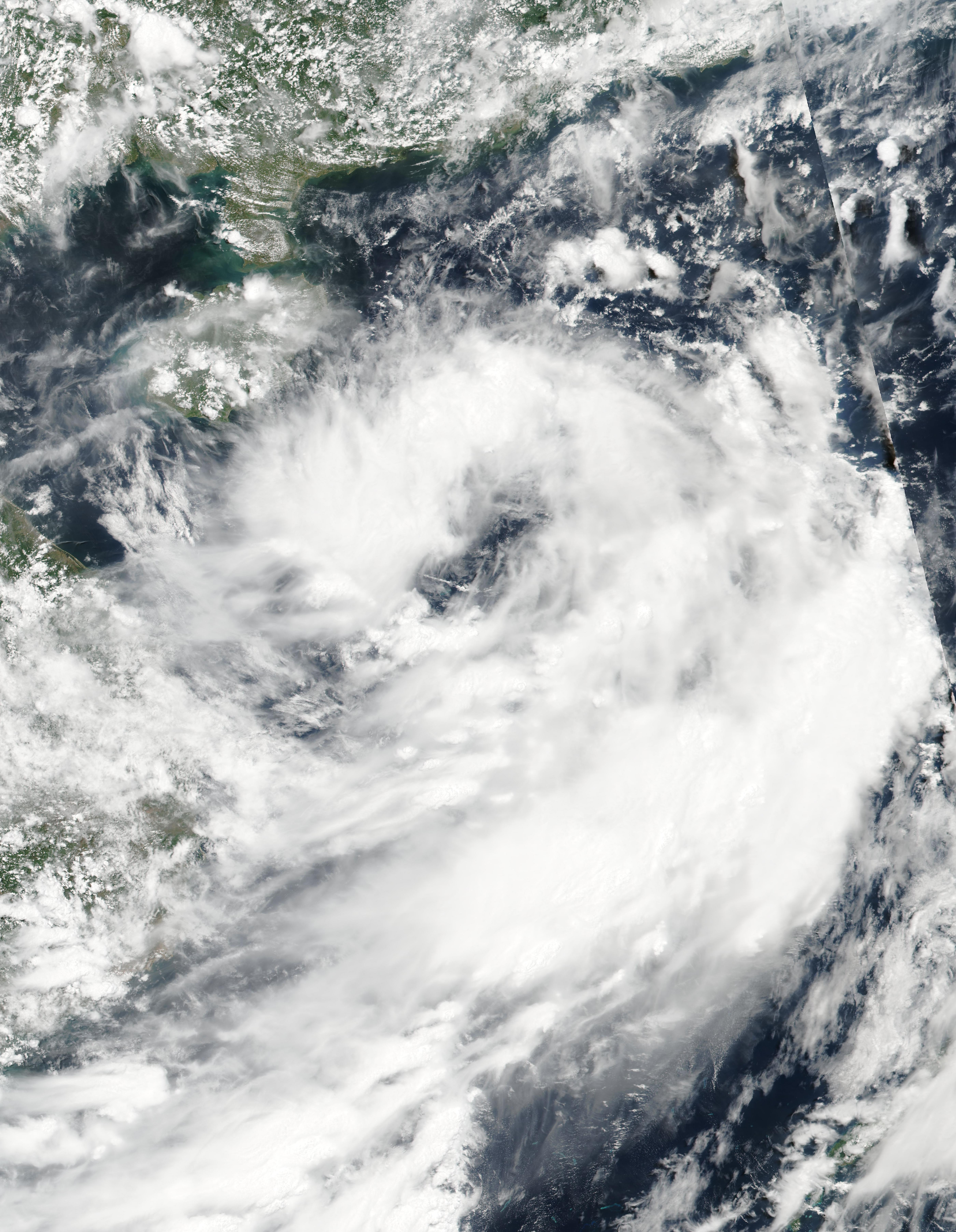 JMA Tropical Depression 01 or Invest 90W near Hainan, China on May 26, 2016